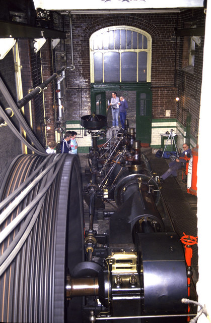 Bamford Mill: The mill engine at full chat.A public steaming day with the Musgrave engine running at just over 100 rpm - which is why the barring teeth on the flywheel rim are blurred. The engine still survives but there is no steam plant and the mill is now all flats. The picture was taken with the aid of a Metz Mecablitz 60CT1 - an invaluable tool for this type of work.